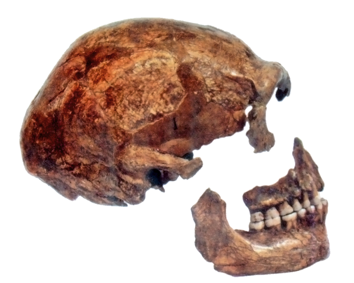 Skull, Spy 2, found in 1886 in Belgian Spy, one of the main sites of enormous importance for the proof of the existence of the human species of Neanderthal.